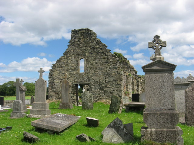 Church ruins at Clonmore, Co. Louth Ruins of the medieval parish church on the site of an Early Christian period monastic foundation of St. Columba.